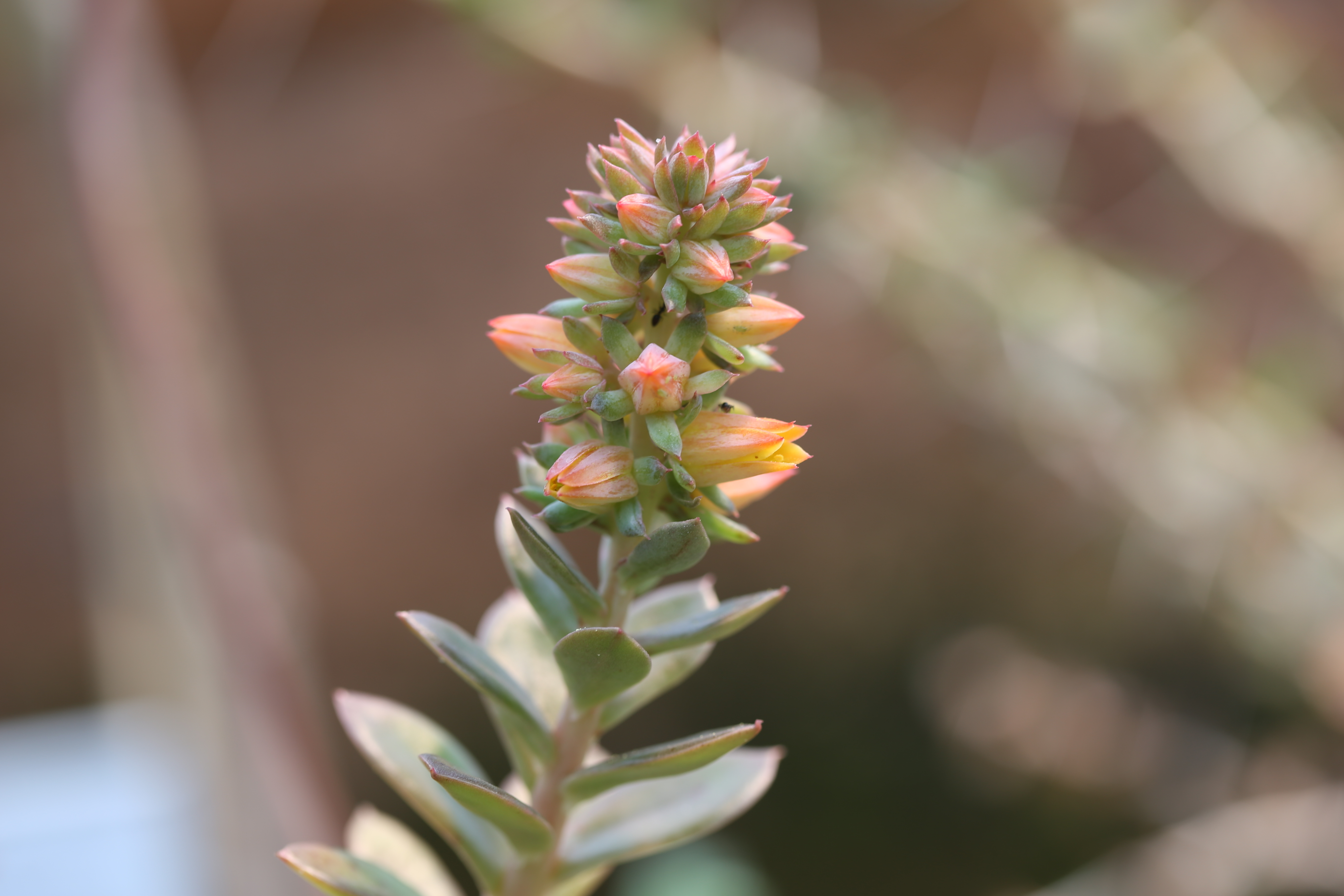 Echeveria rosea at Gothenburg Botanical Garden 2015. Plant id: 2007-904 s Z -- Gött.